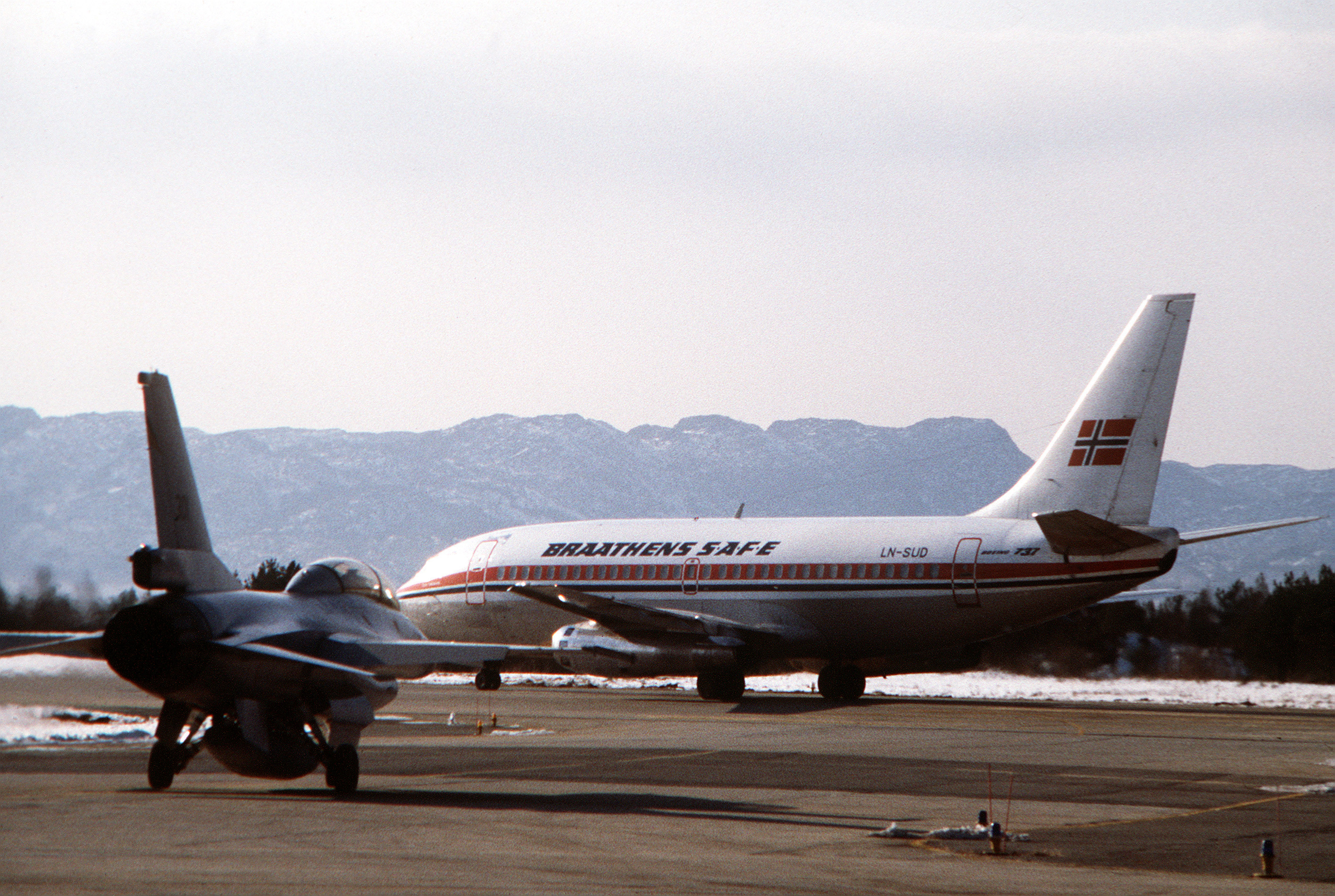 A rear view of an F-16 Fighting Falcon aircraft waiting for its turn for take-off. The Fighting Falcon is being deployed overseas for the first time to Flesland Air Station, a joint military/civilian airfield.